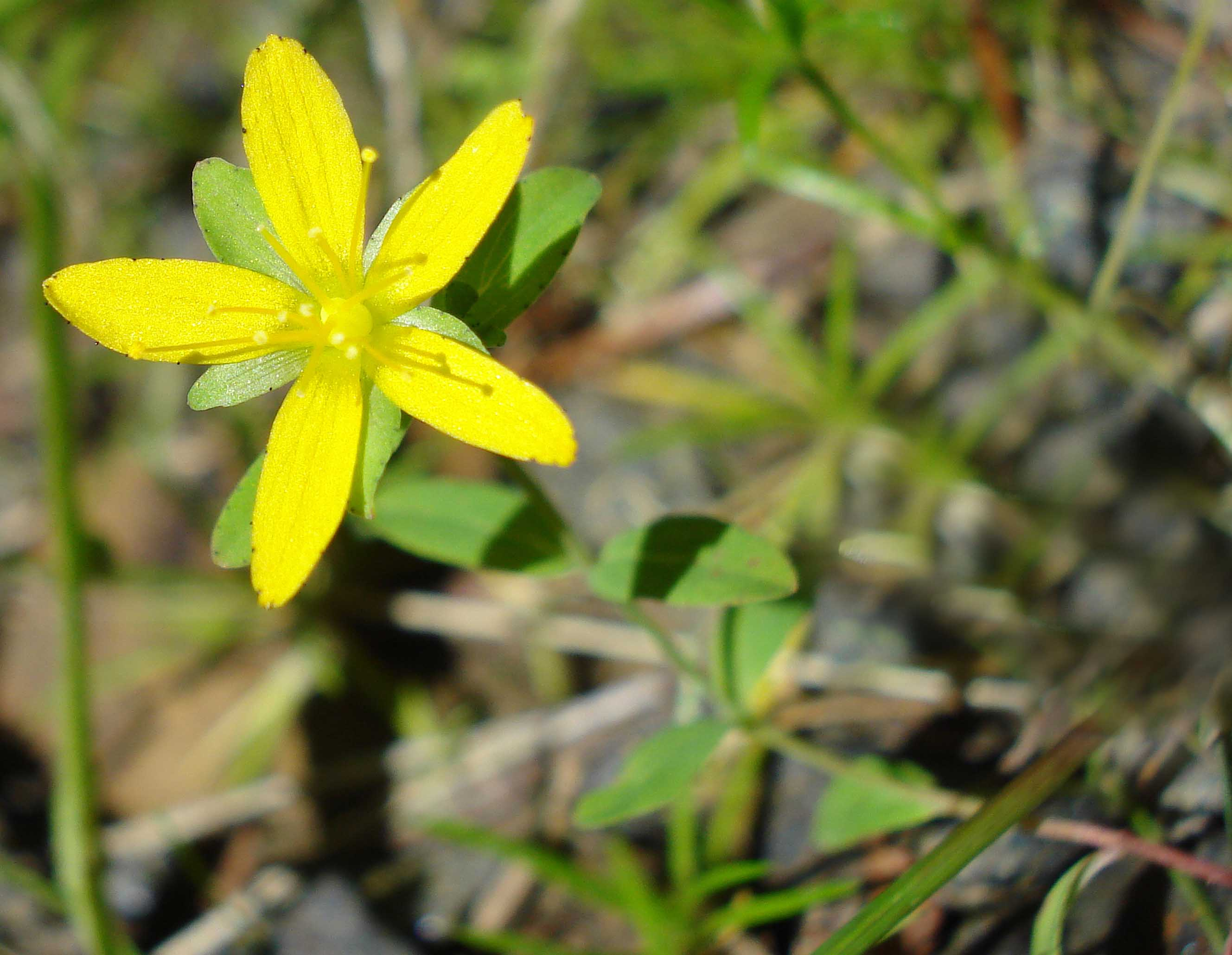 Hypericum humifusum (Unterfranken, Germany)